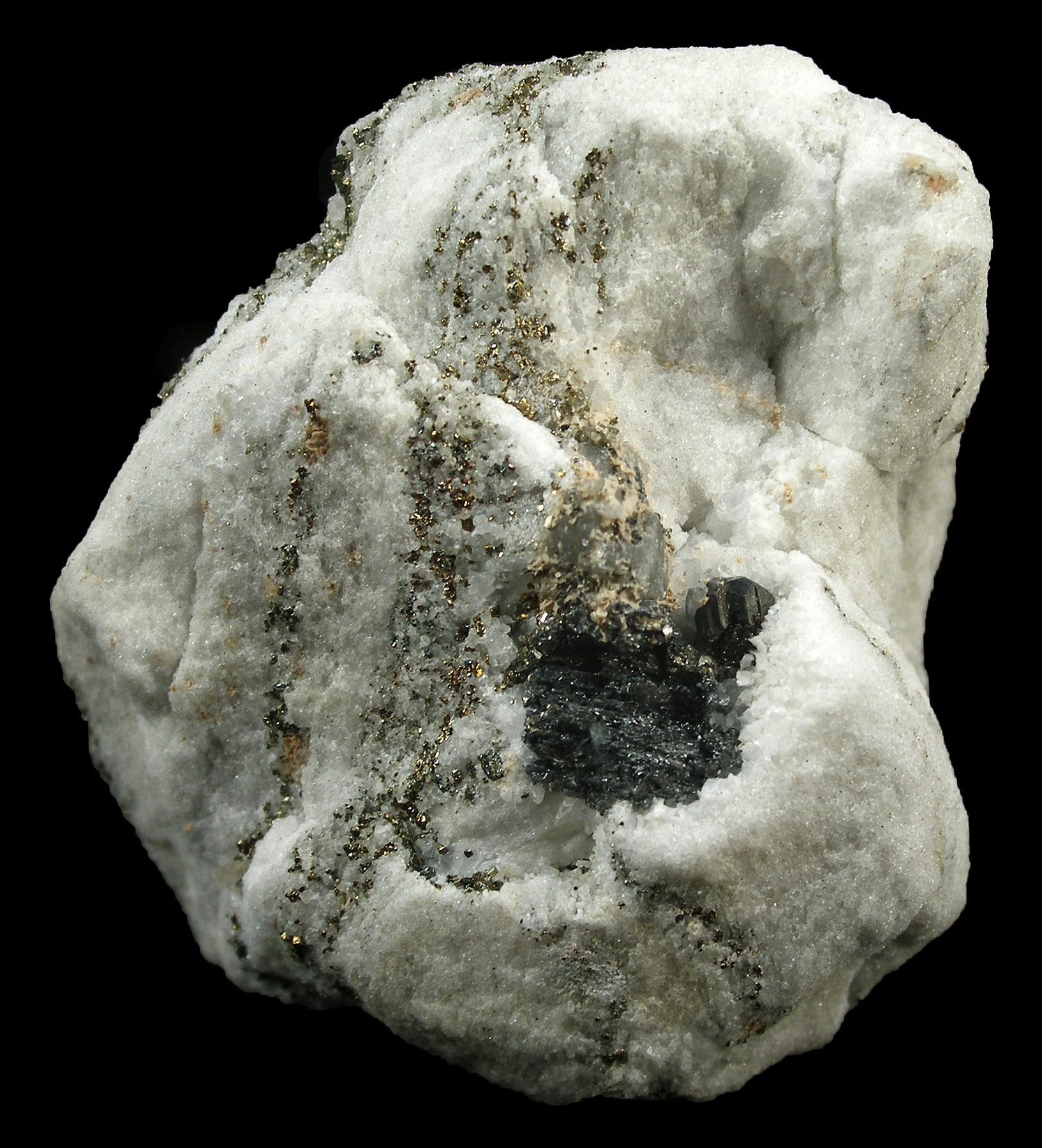 Sartorite Locality: Lengenbach Quarry, Im Feld (Imfeld; Feld; Fäld), Binn Valley, Wallis (Valais), Switzerland (Locality at ) Size: miniature, 4.5 x 3.8 x 2.7 cm Sartorite From the TYPE LOCALITY for this rare species, here is a protected cavity hosting a cluster of 2-3mm striated sartorite crystals, in sugary dolomite matrix. From the collection of a longtime Lengenbach collector, which was sold off recently.